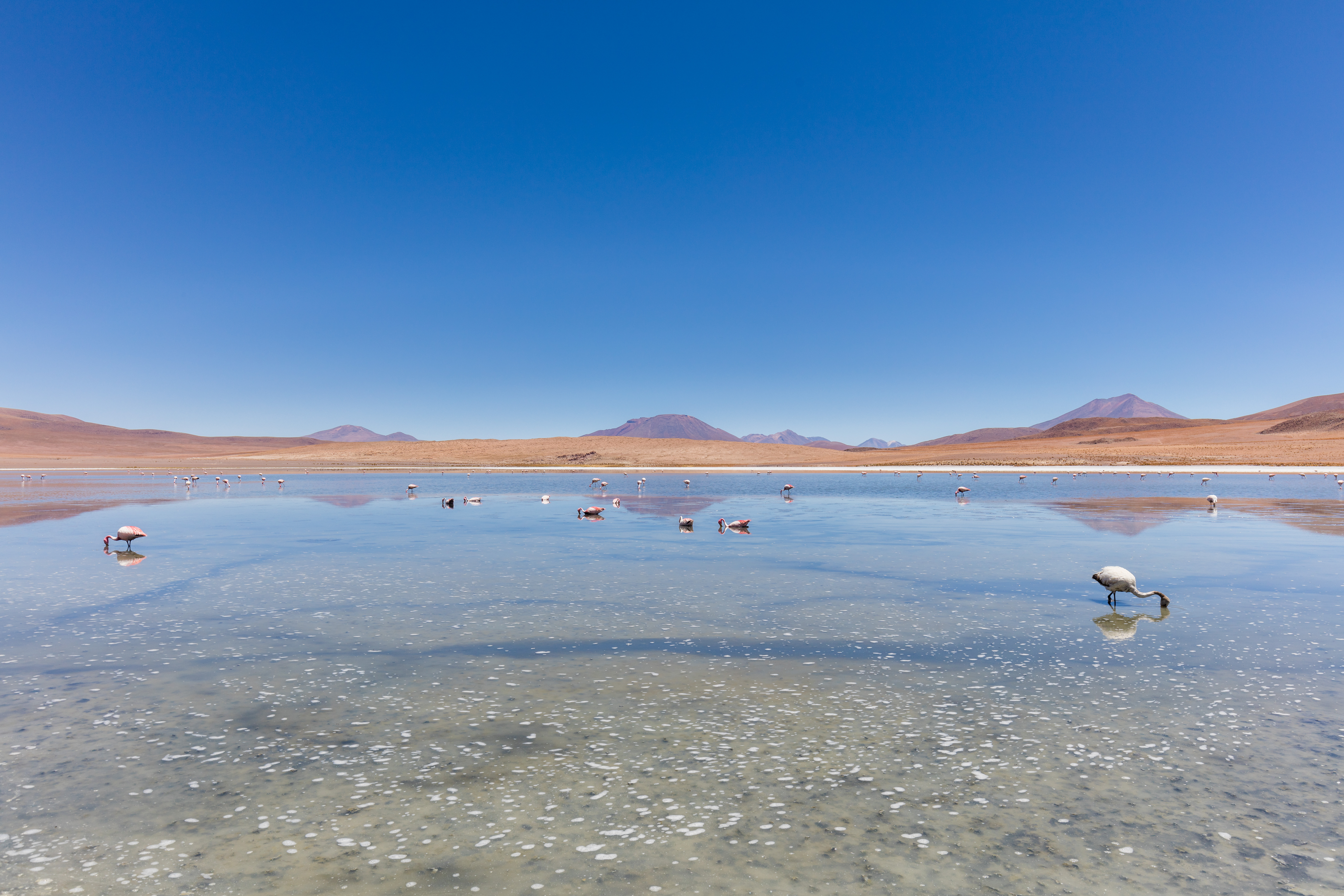 Laguna Cañapa, Bolivia